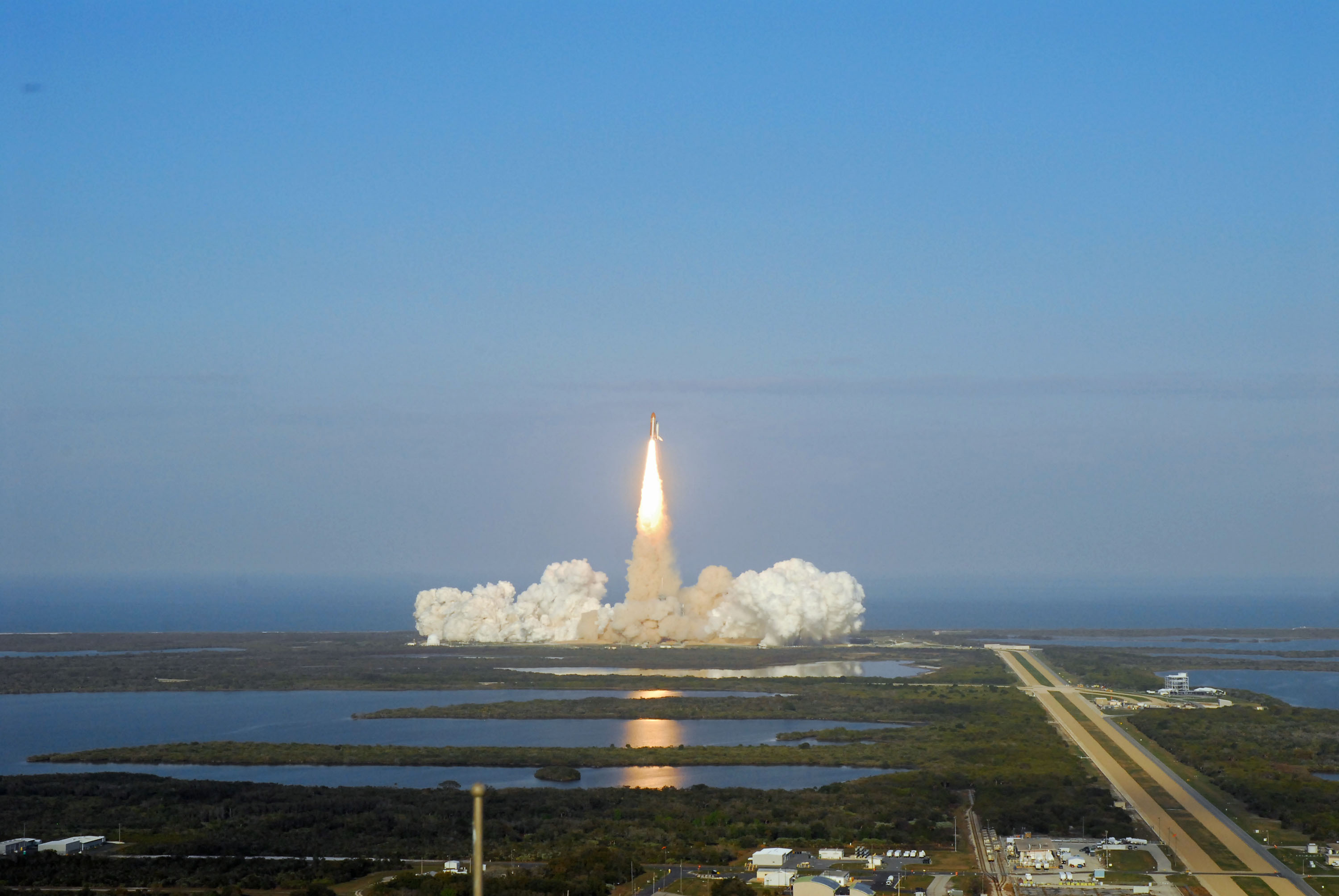 CAPE CANAVERAL, Fla. -- Taken from the roof of the Vehicle Assembly Building at NASA's Kennedy Space Center in Florida, space shuttle Discovery lifts off Launch Pad 39A atop twin columns of fire, creating rolling clouds of smoke and steam in its track. Launch of the STS-133 mission was at 4:53 p.m. EST on Feb. 24. Discovery and its six-member crew are on a mission to deliver the Permanent Multipurpose Module, packed with supplies and critical spare parts, as well as Robonaut 2, the dexterous humanoid astronaut helper, to the International Space Station. Discovery is making its 39th mission and is scheduled to be retired following STS-133. This is the 133rd Space Shuttle Program mission, the 35th shuttle voyage to the space station and Discovery's final mission.